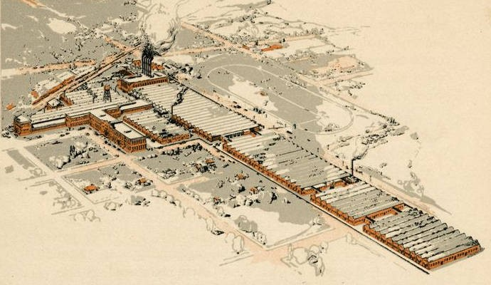 Public Domain - published before 1923 - Drawing of the Thomas B. Jeffery Co. factory in Kenosha, Wisconsin, U.S.A. (circa 1916)